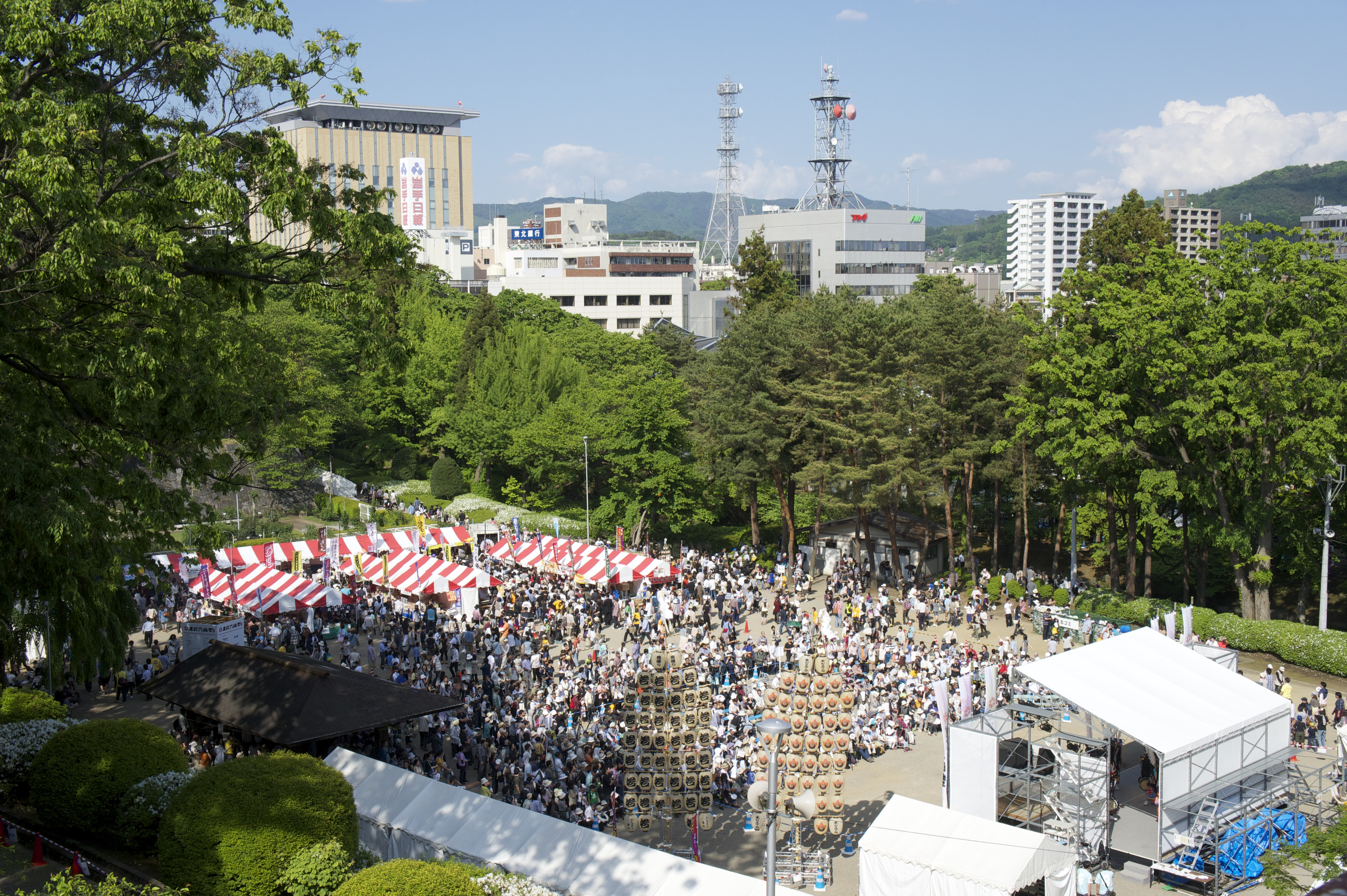 Tohoku Rokkonsai Festival in Morioka.